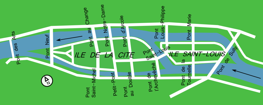 bridges of central paris